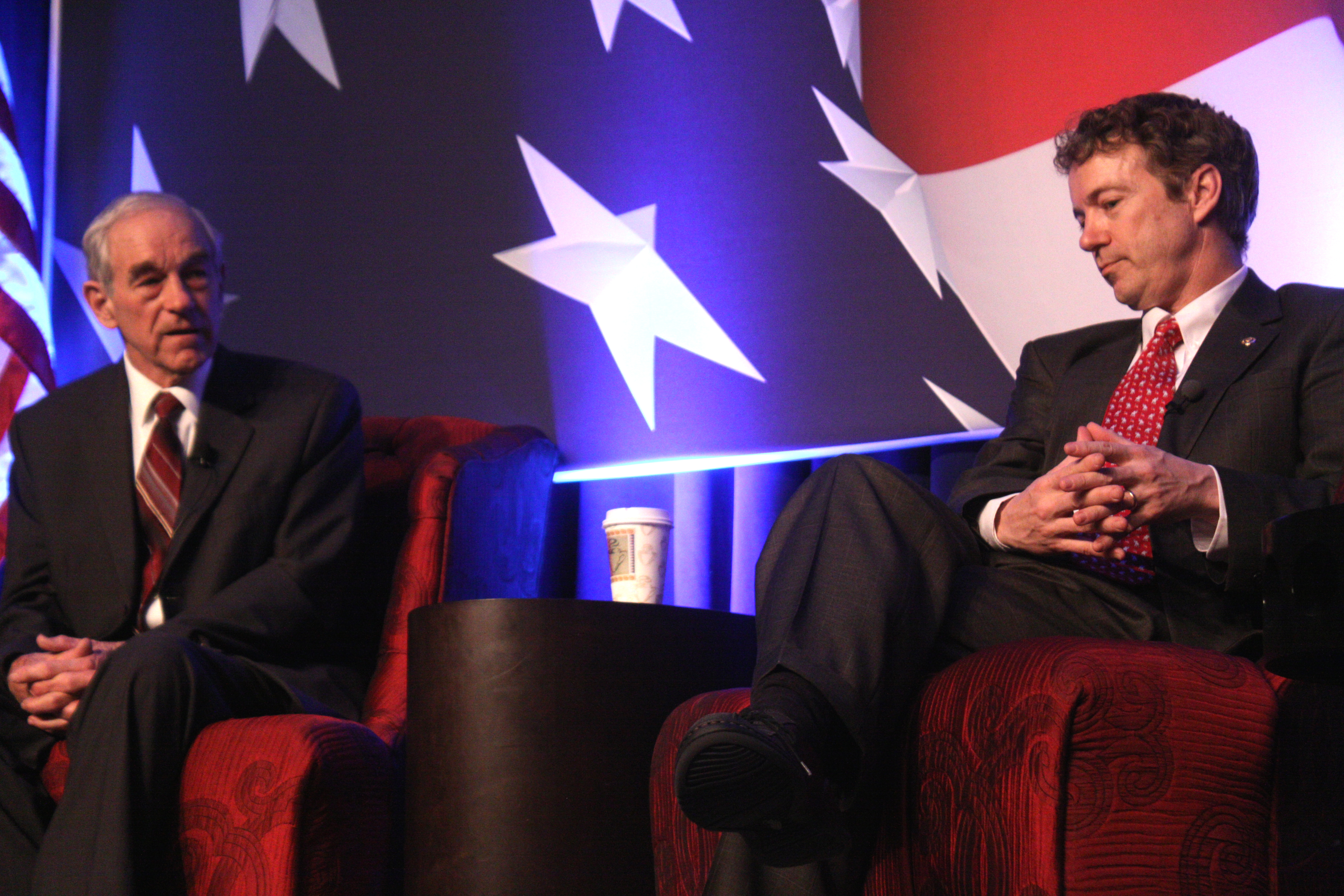 Congressman Ron Paul and Senator Rand Paul at an event hosted in their honor at CPAC 2011 in Washington, D.C.